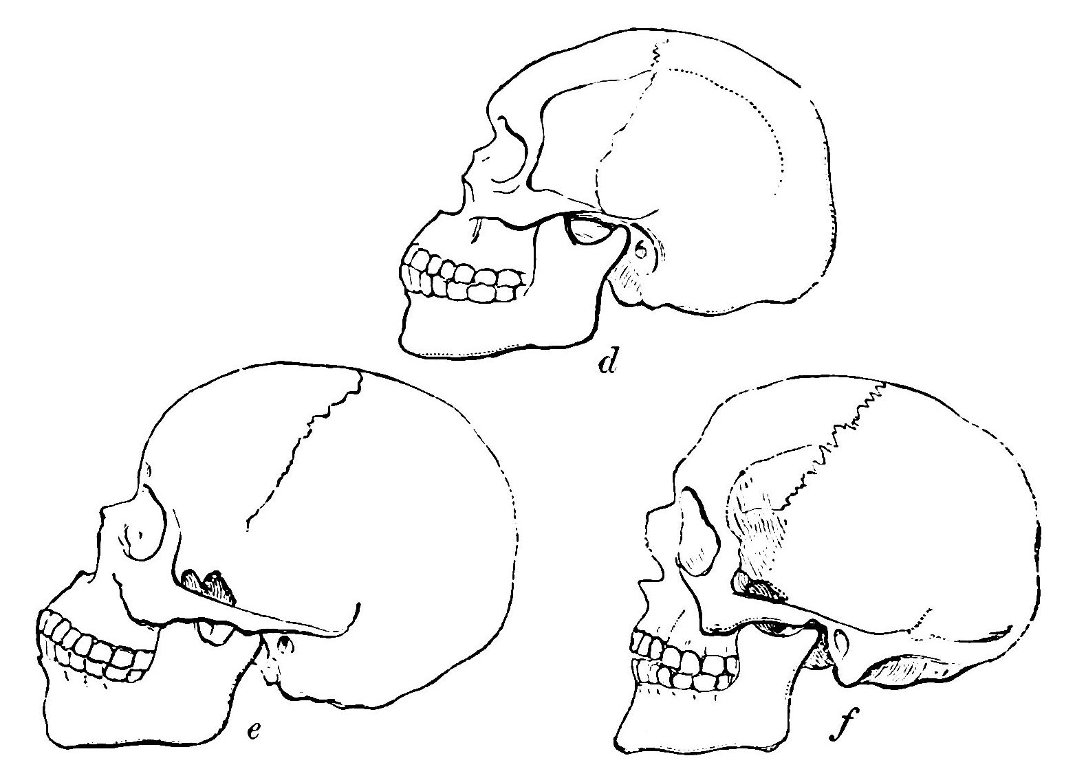 Side view of skulls of various races